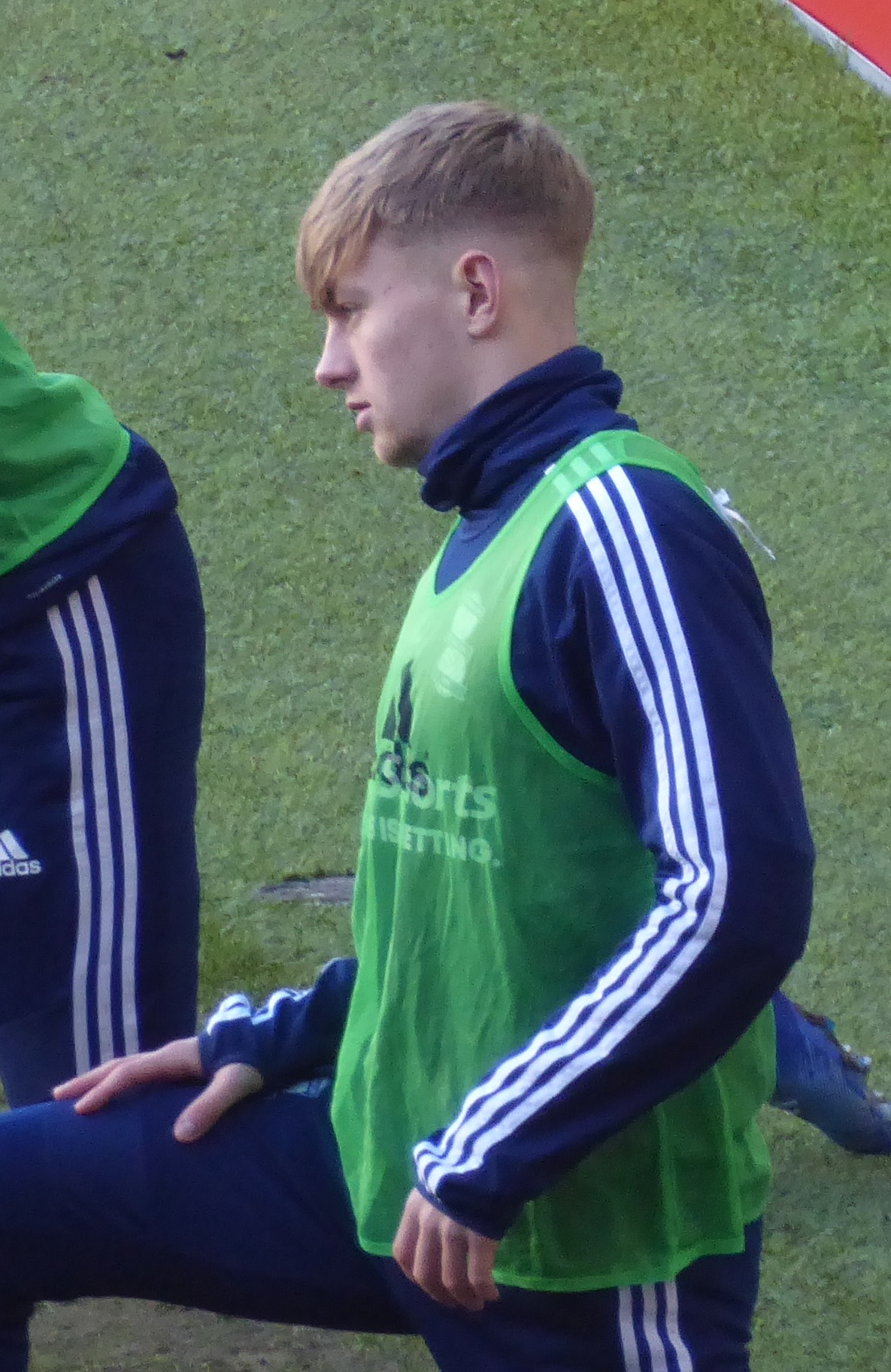 English footballer Jack Concannon warming up during Birmingham City's EFL Championship match on 1 February 2020